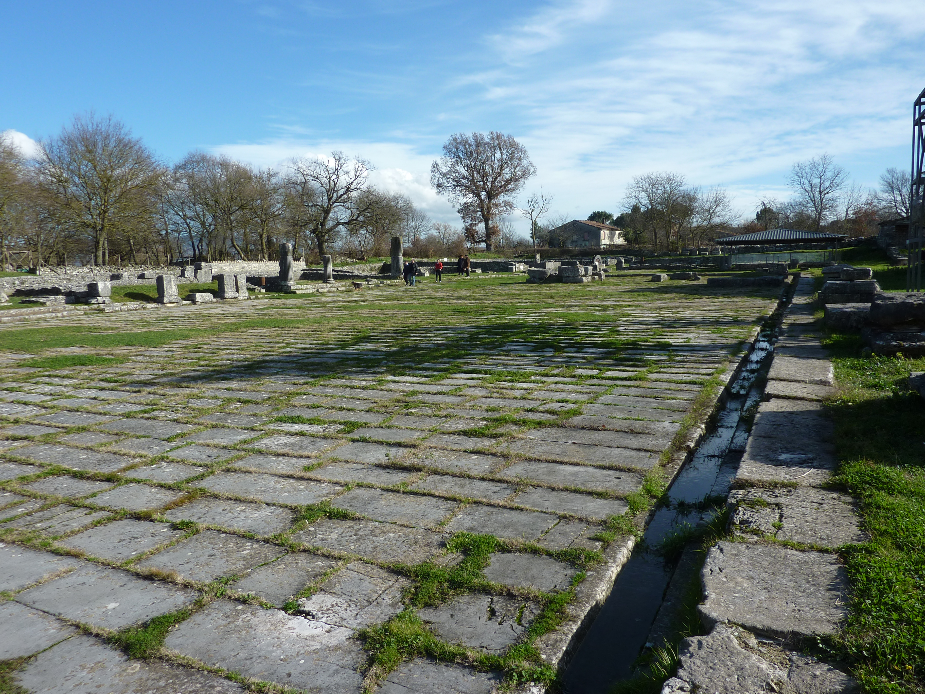 Altilia-Sepino